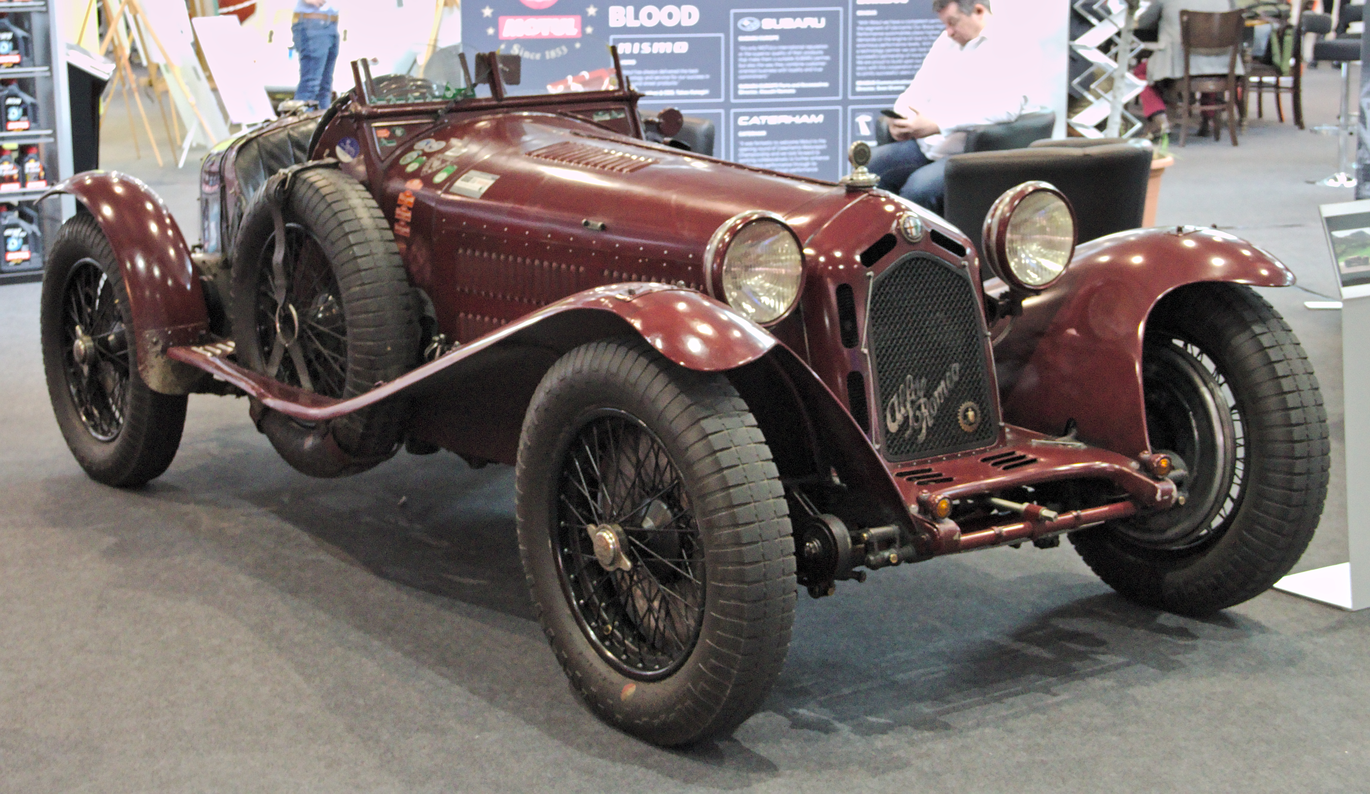 Alfa_Romeo_8C_2600 at Retro Classics 2020